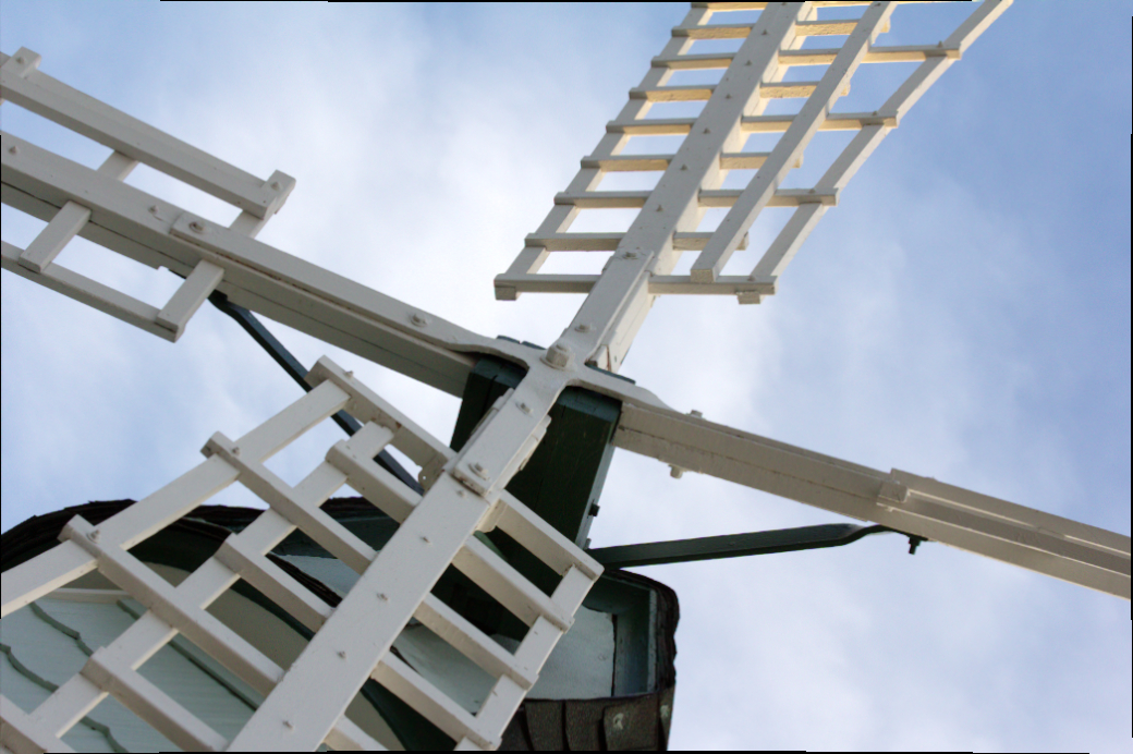 Cambern Dutch Shop Windmill, S. ll02 Perry